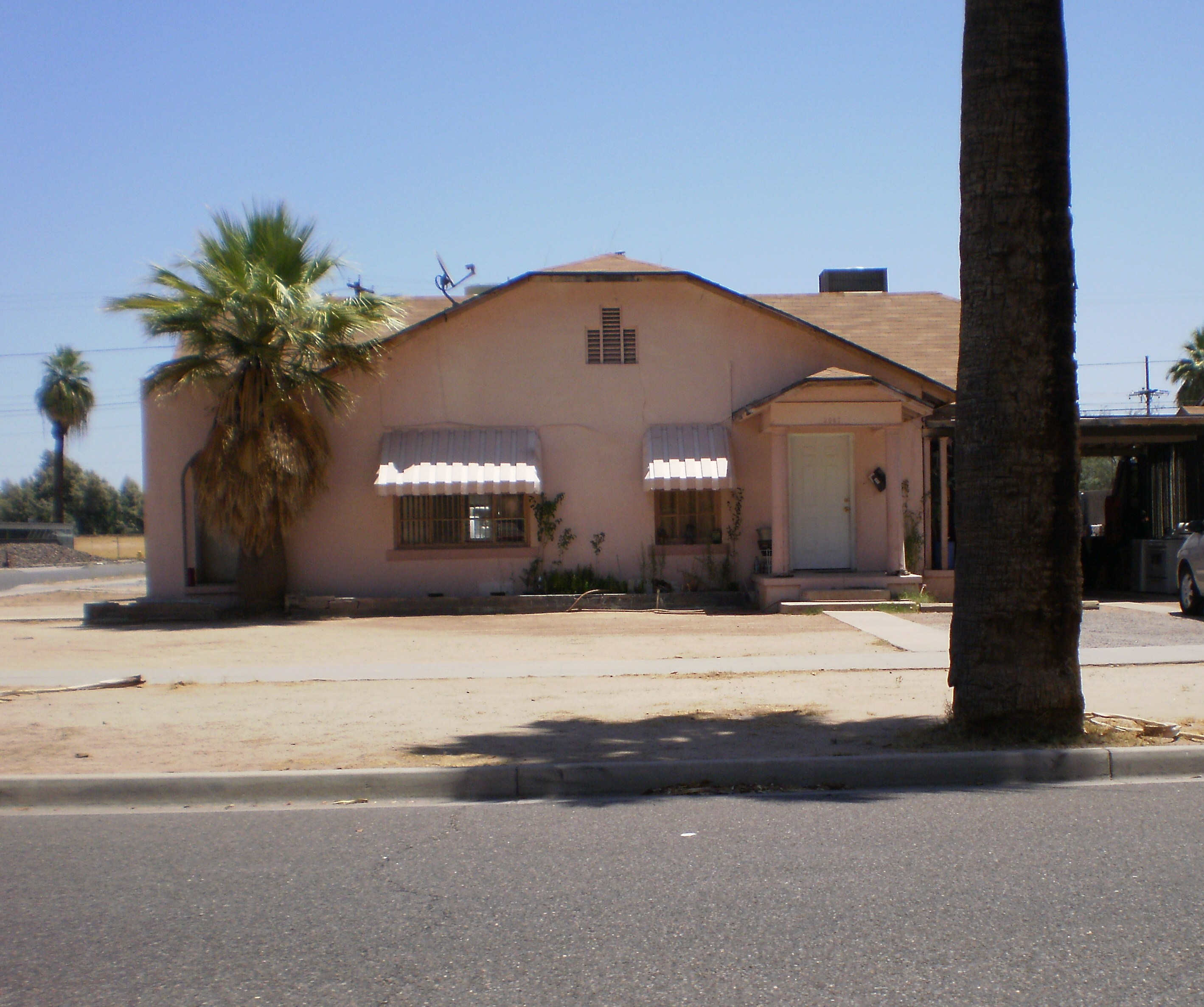 Winnie Ruth Judd Murder Bungalow-Front View from 2nd Street